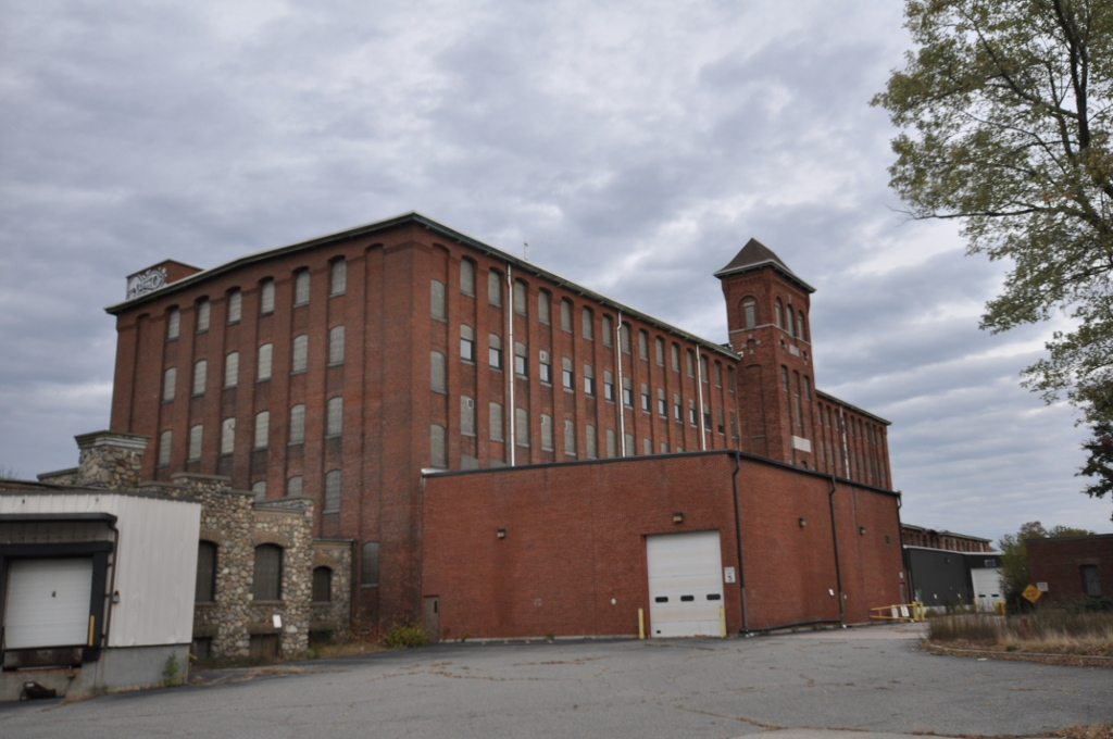 Lowney Chocolate Factory